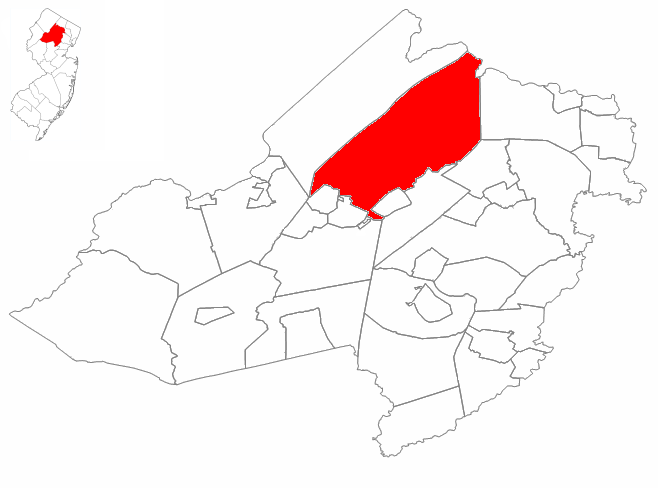 Position of Rockaway Township (highlighted in red) in Morris County. Morris County's position in New Jersey is in turn highlighted in red.